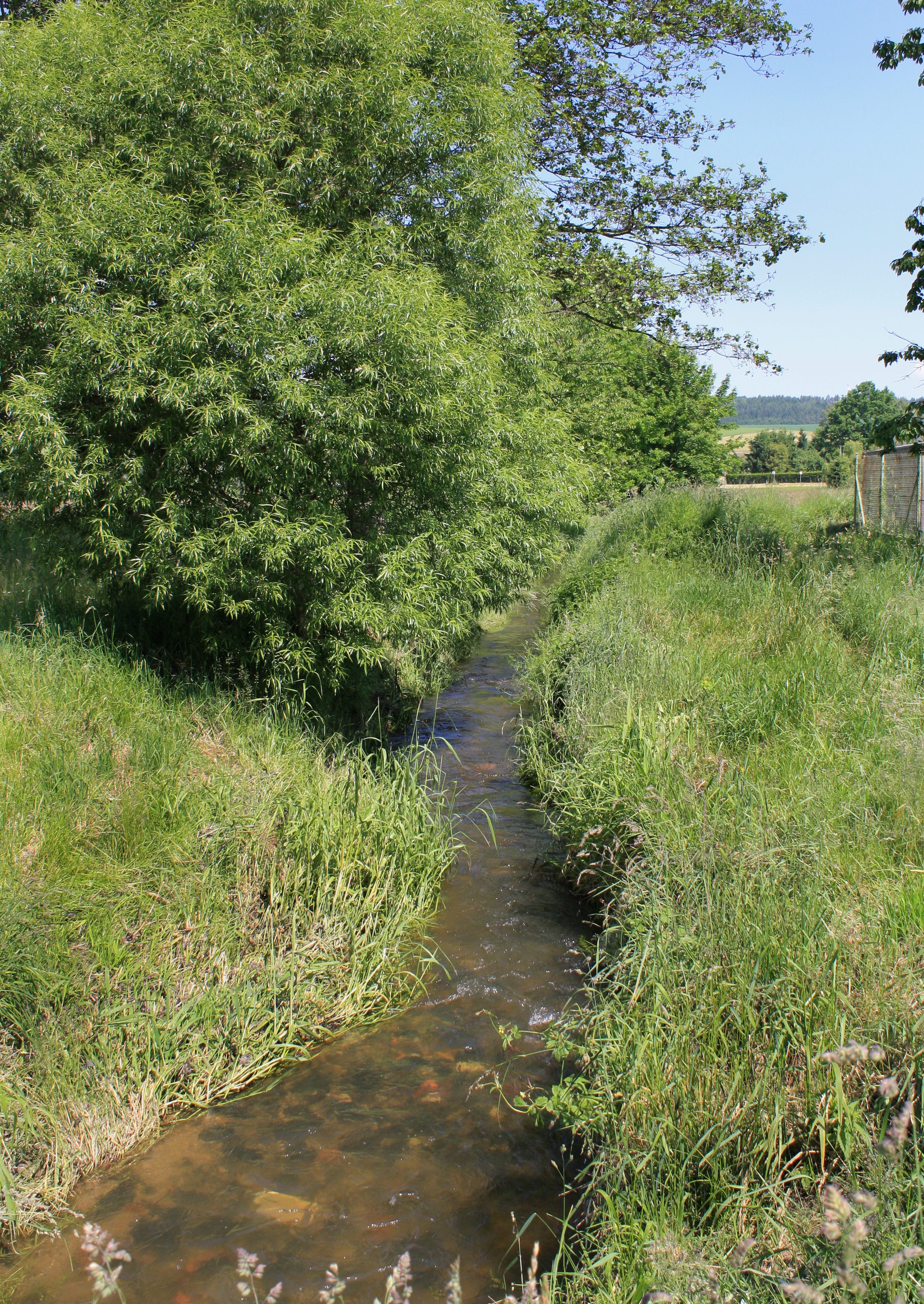 Mochtínský creek in Mochtín, Czech Republic